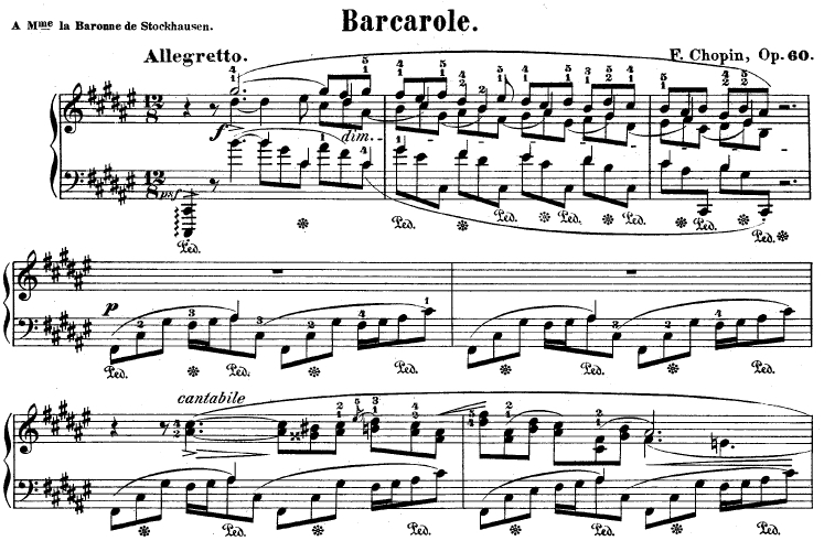 First bars of score from barcarolle of chopin, pd.